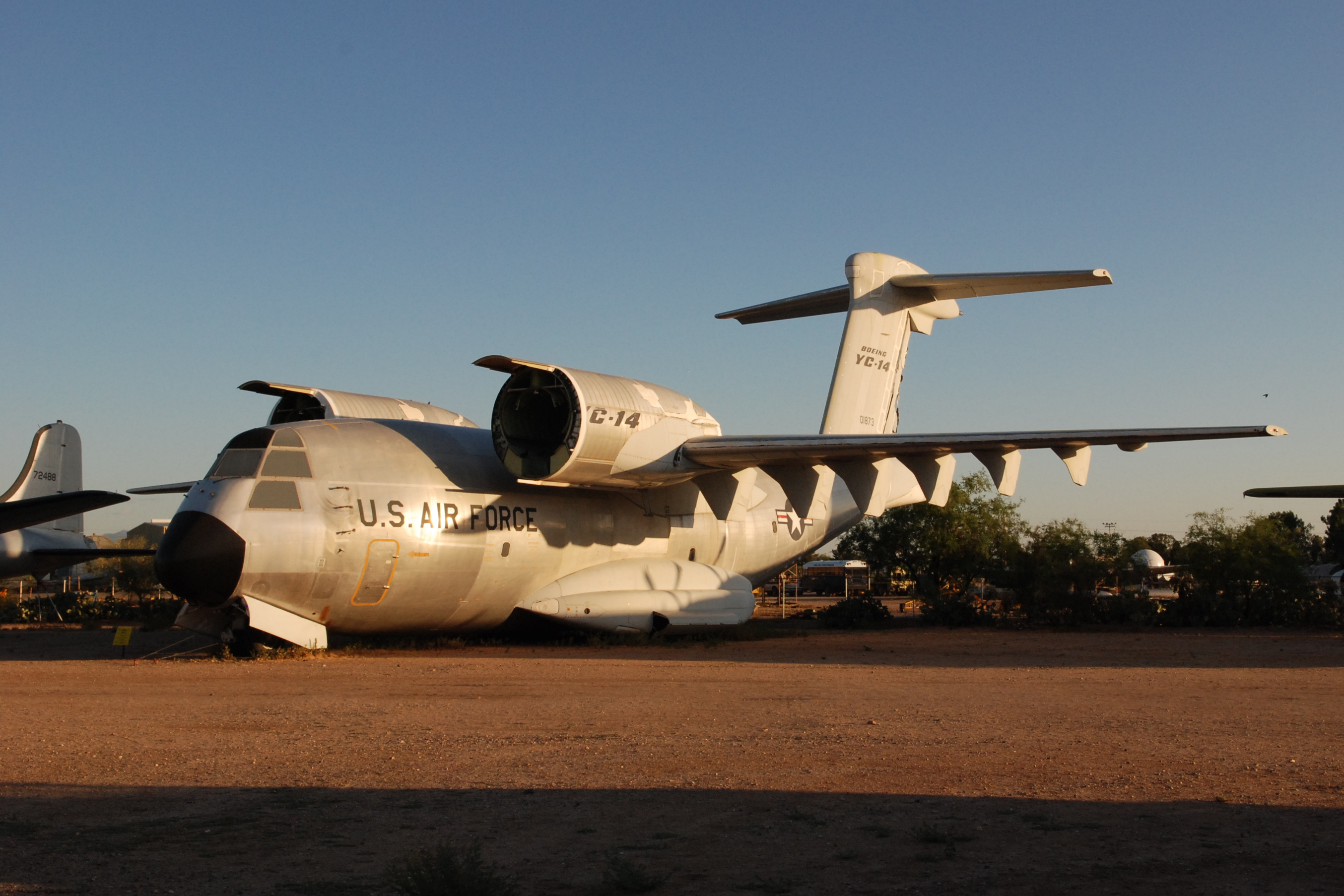 First prototype of Boeing YC-14 at Pima Air & Space Museum